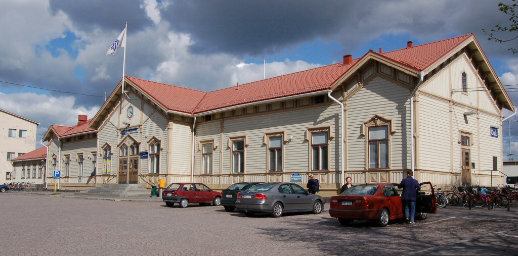 Oulu railway station in Oulu, Finland, as seen from Rautatienkatu (Railway Street)